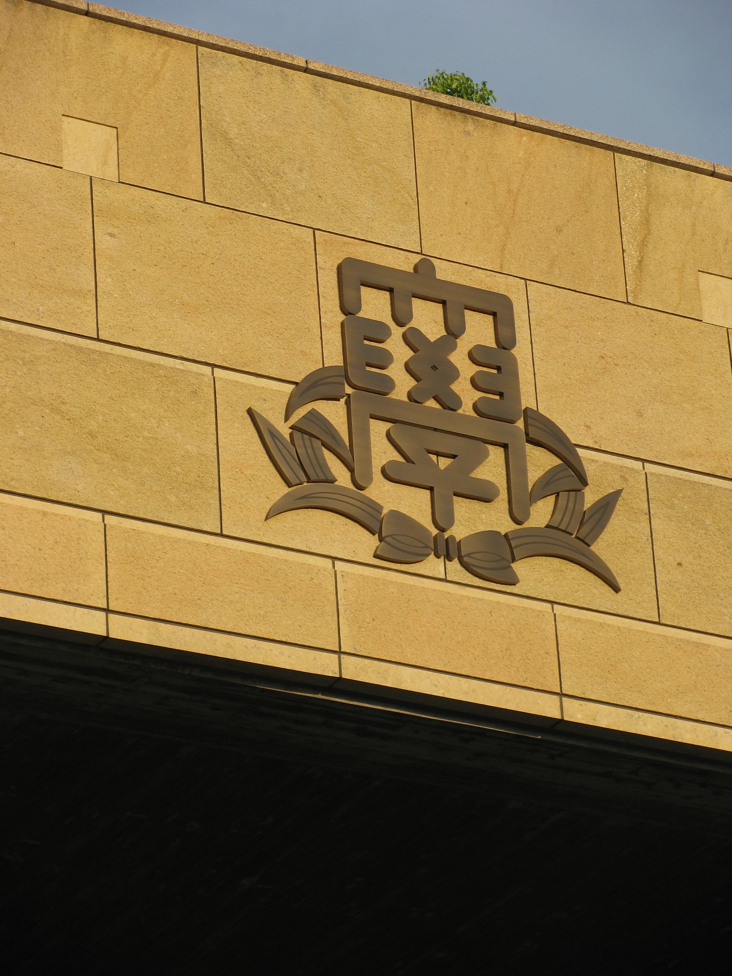 Kansai University